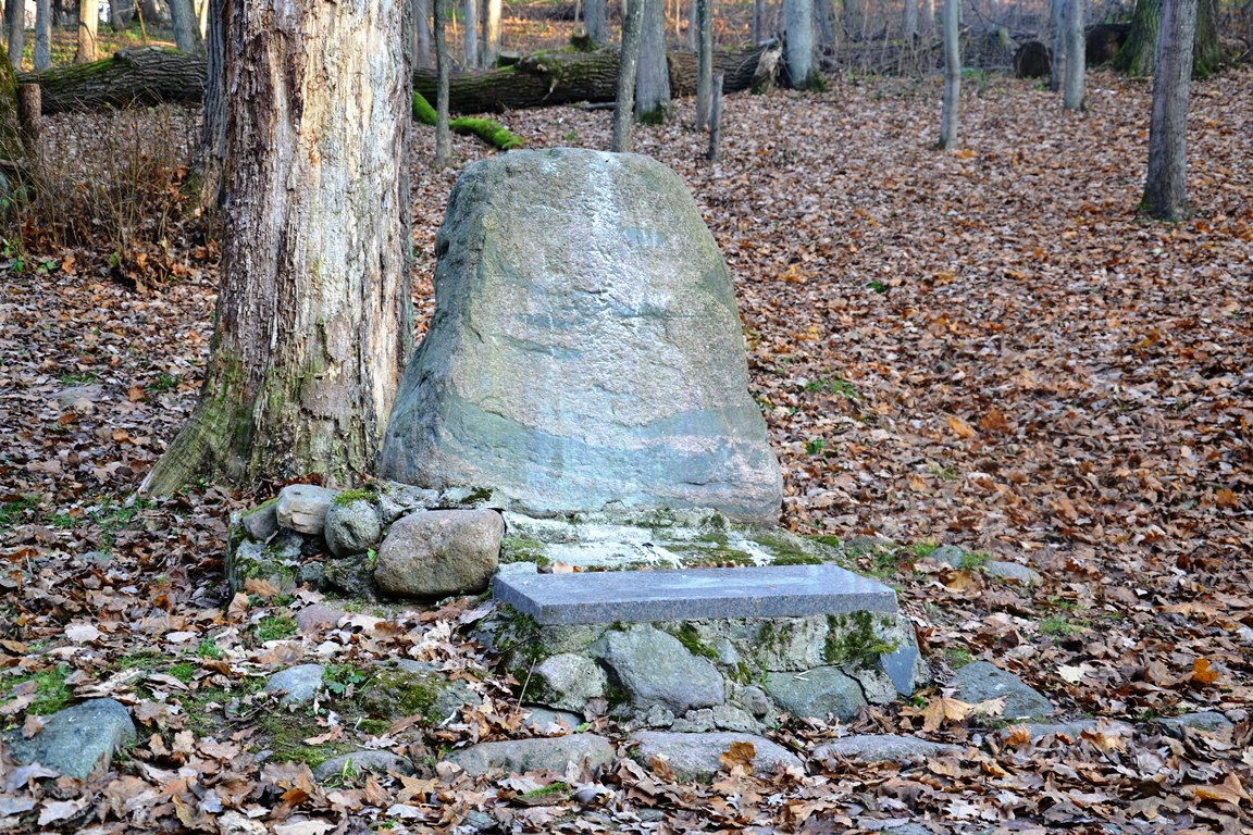 Stone of Adam Mickiewicz, Kaunas, Lithuania